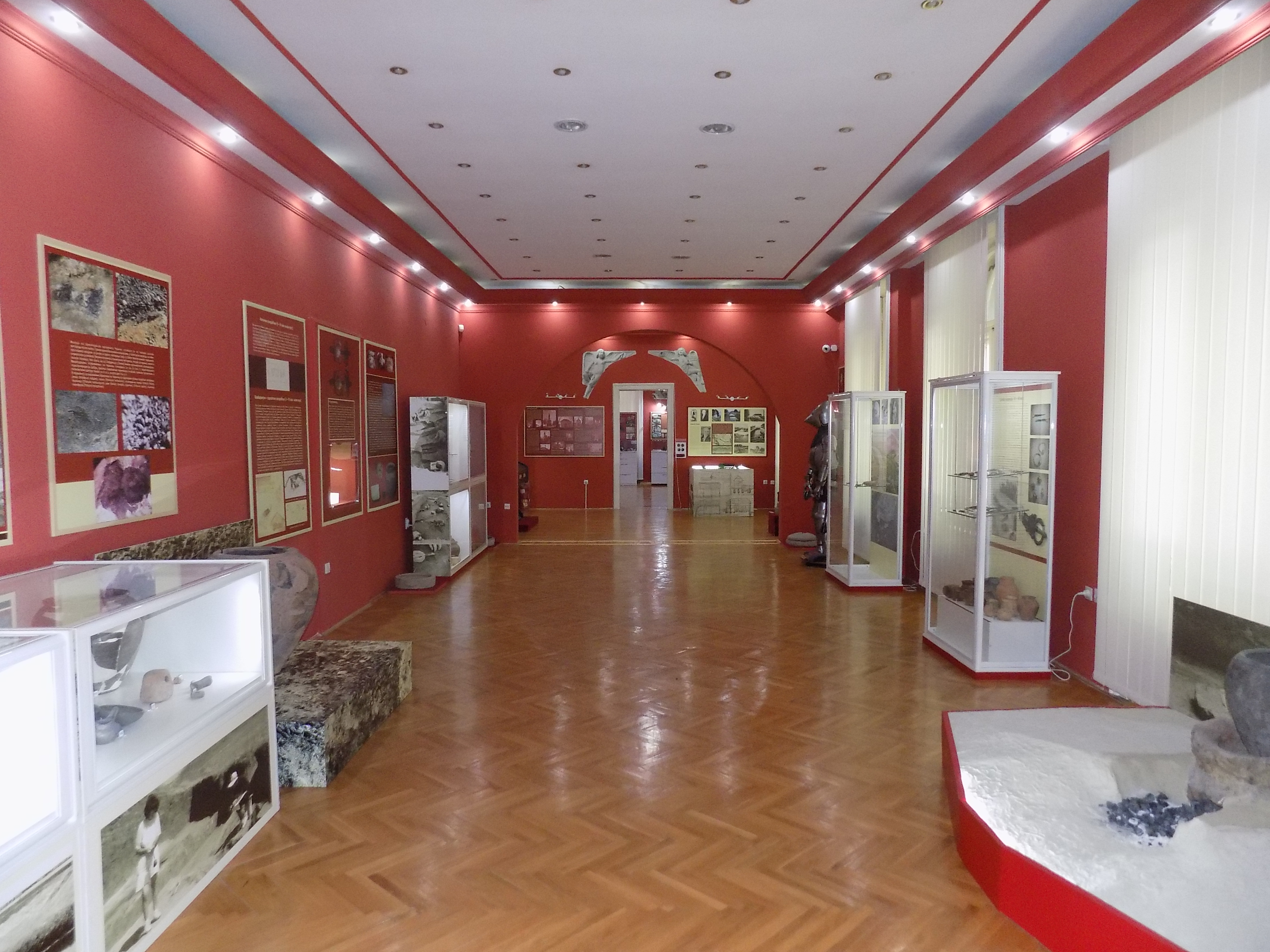 A view at a permanent setting